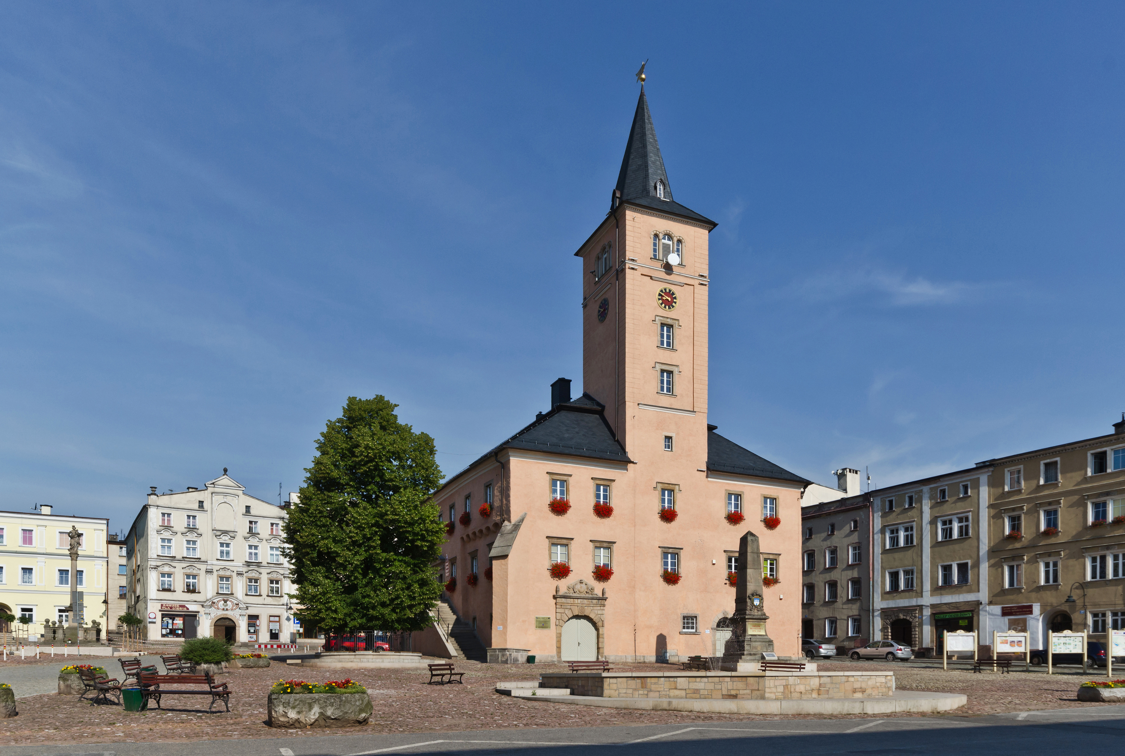 Town hall in Radków